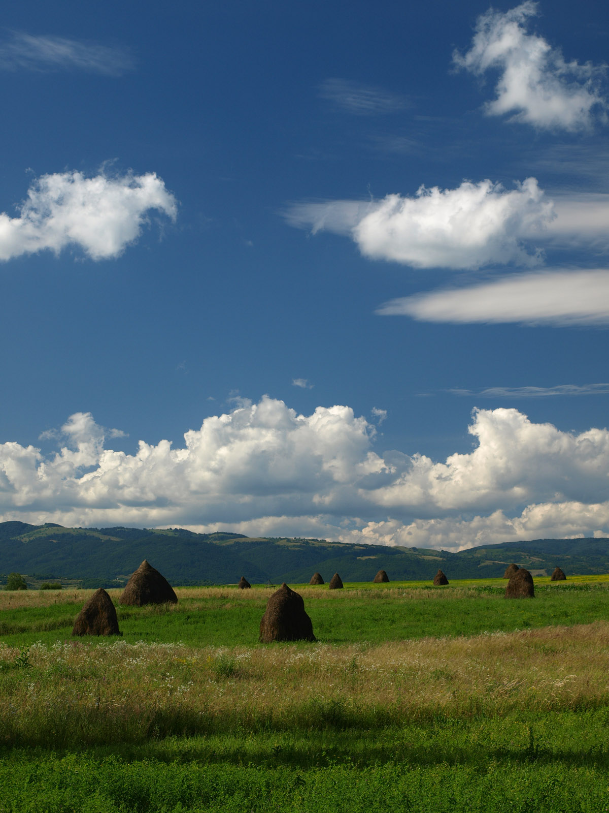 Valea Almăjului